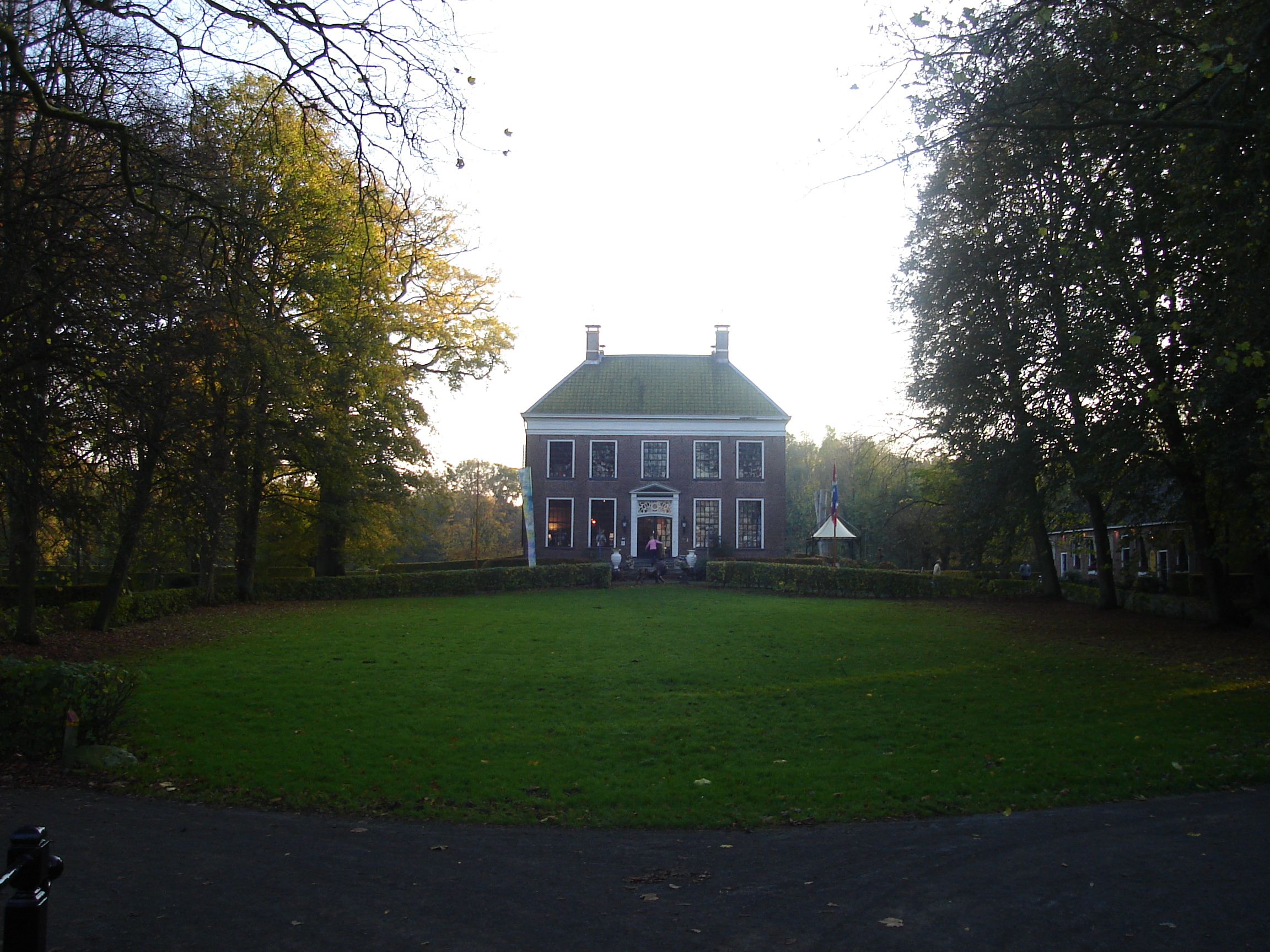 Photo taken by me of the Ennemaborg mansion in Midwolda, municipality of Scheemda, the Netherlands.